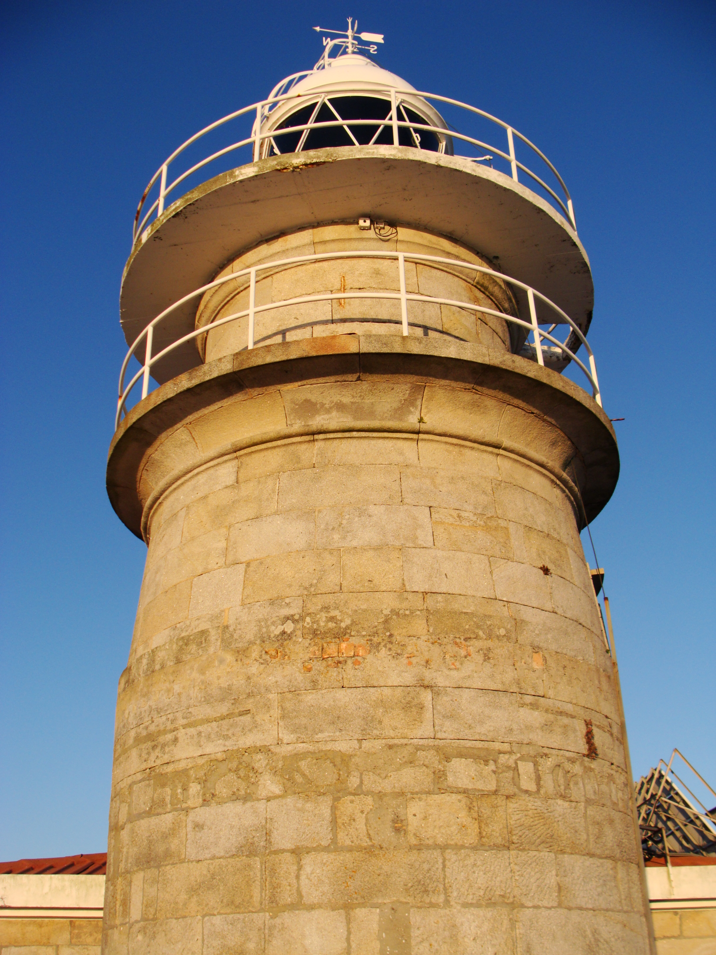 Faro de Cíes, in Cíes Islands, Pontevedra, Galicia, Spain.